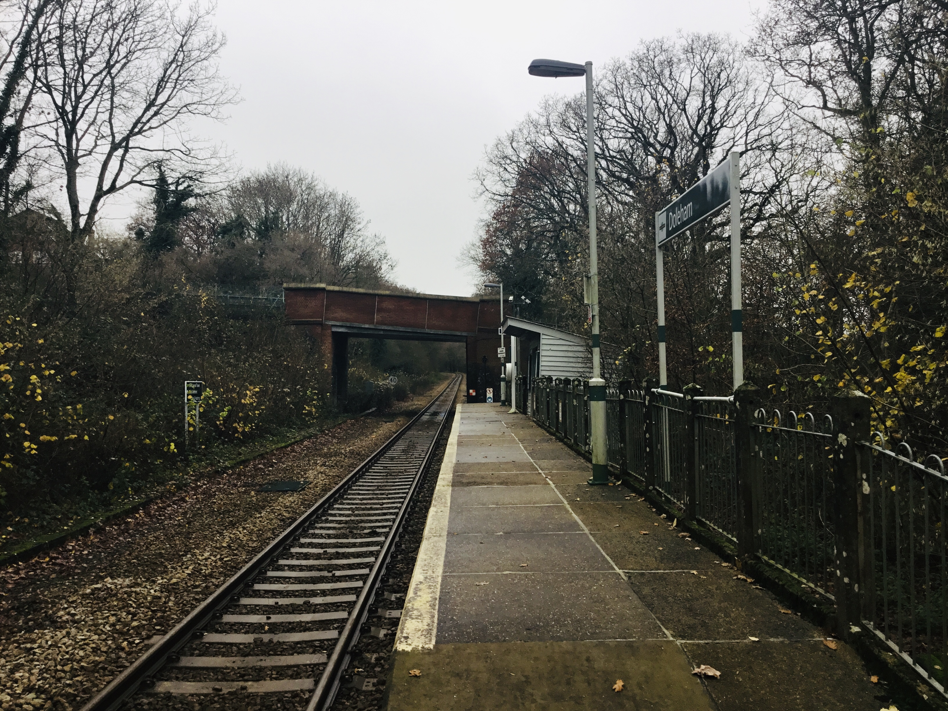 The platform at Doleham railway station, looking south towards Hastings.